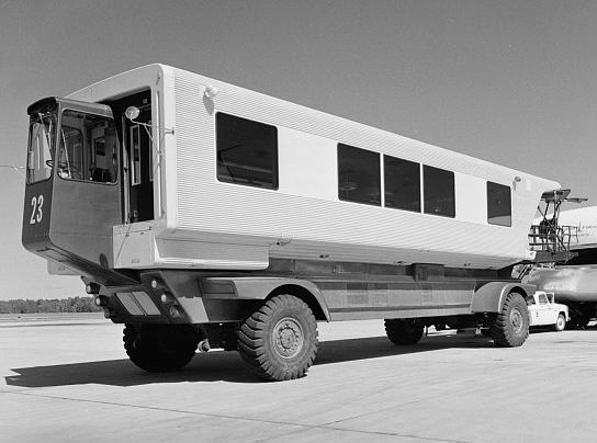 Dulles International Airport, mobile lounge